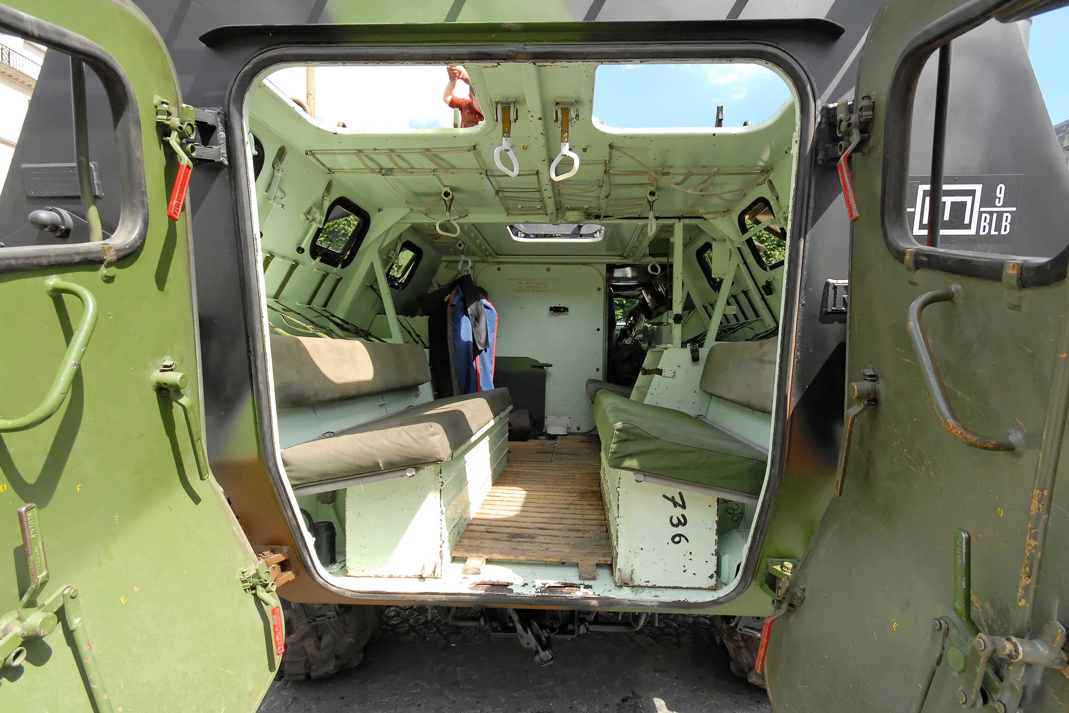 Interior of a VAB personnel carrier (Véhicule de l'Avant Blindé, “Armoured Vanguard Vehicle”) of the 1er RIMa (French marine troops).